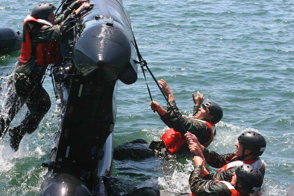 BUDS students train to turn a boat